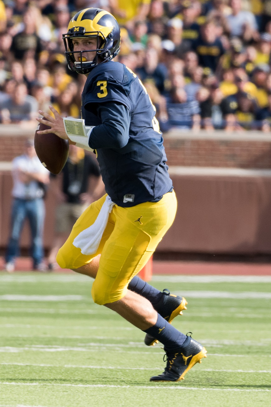 Wilton Speight passing for the w:2016 Michigan Wolverines football team in a 45-28 victory over w:2016 Colorado Buffaloes football team at Michigan Stadium on September 17, 2016.